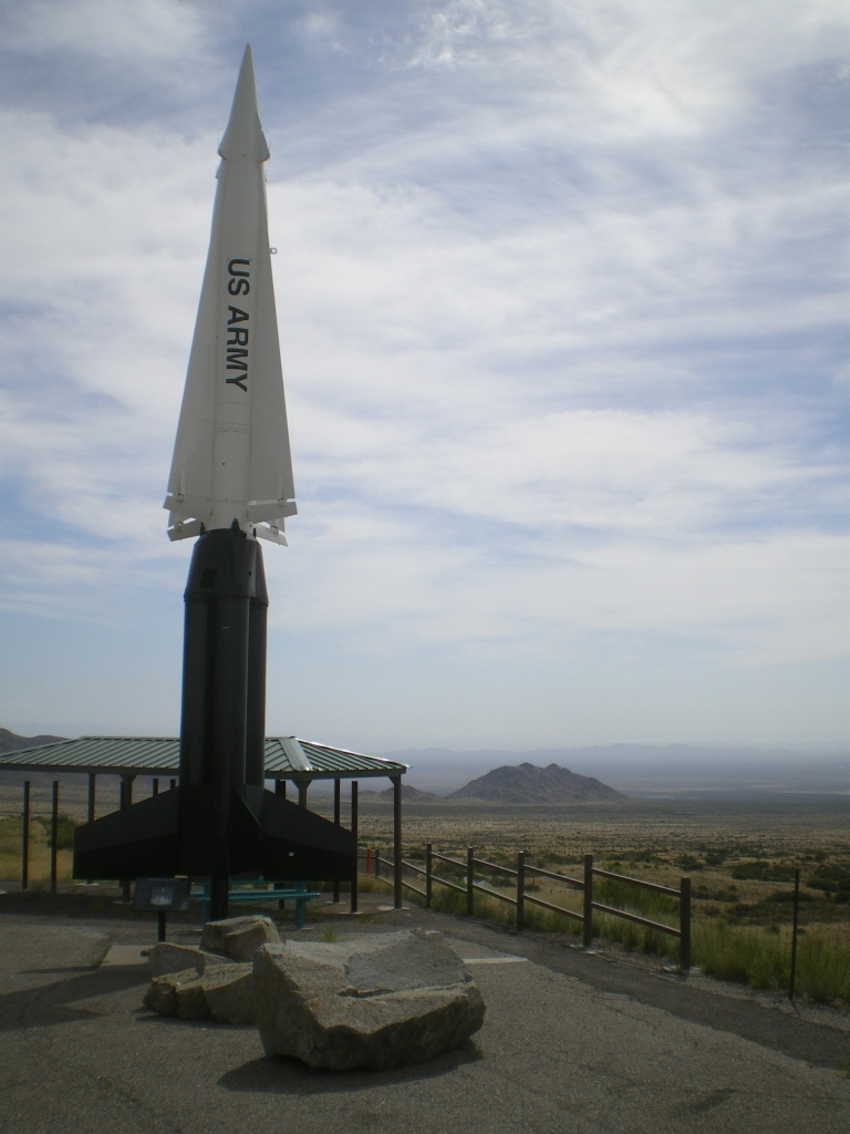 A Nike Hercules missile in a lay-by on US Route 70 near where the route enters the White Sands Missile Range